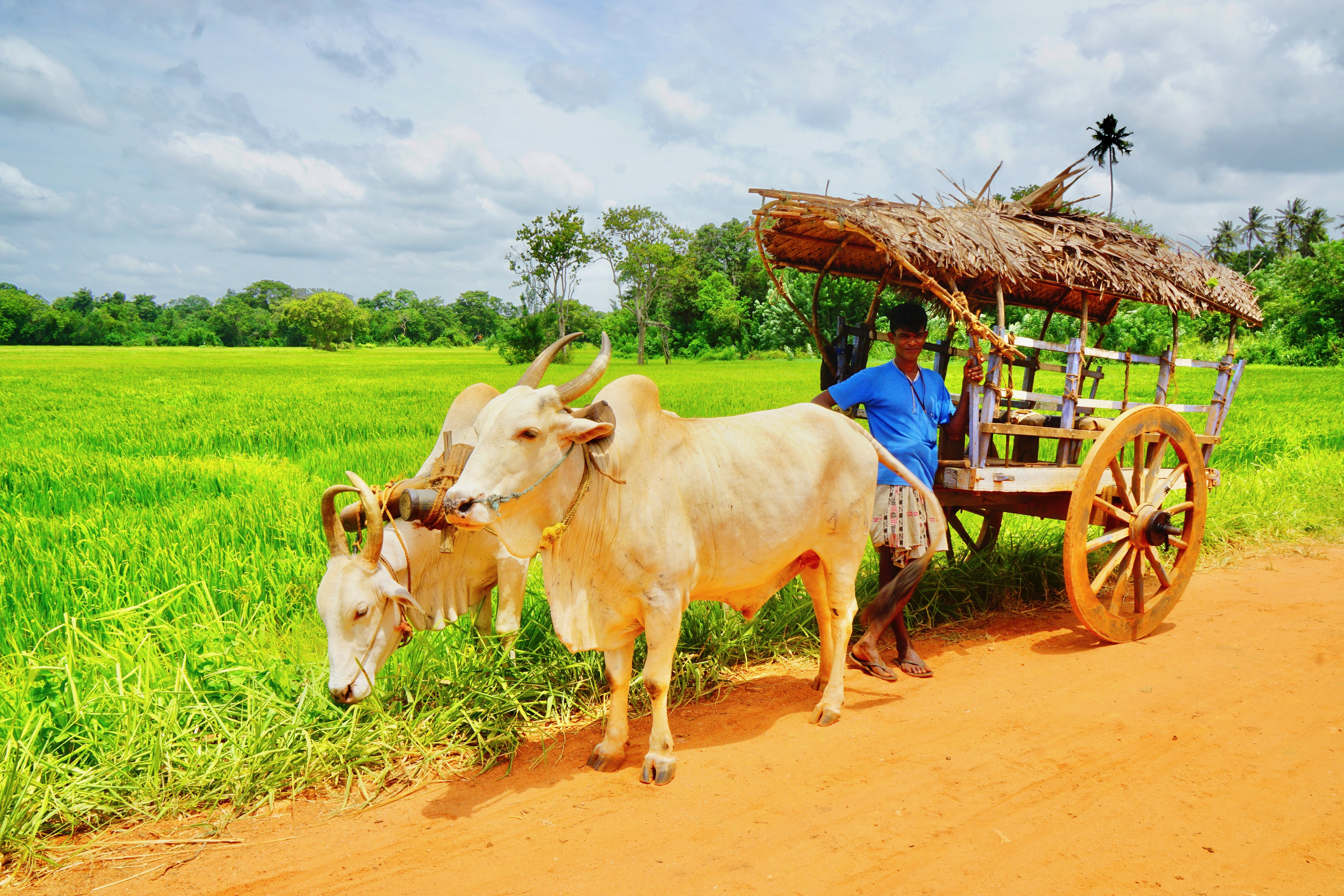 Bullock cart used for transporting good and people in rural Sri Lanka